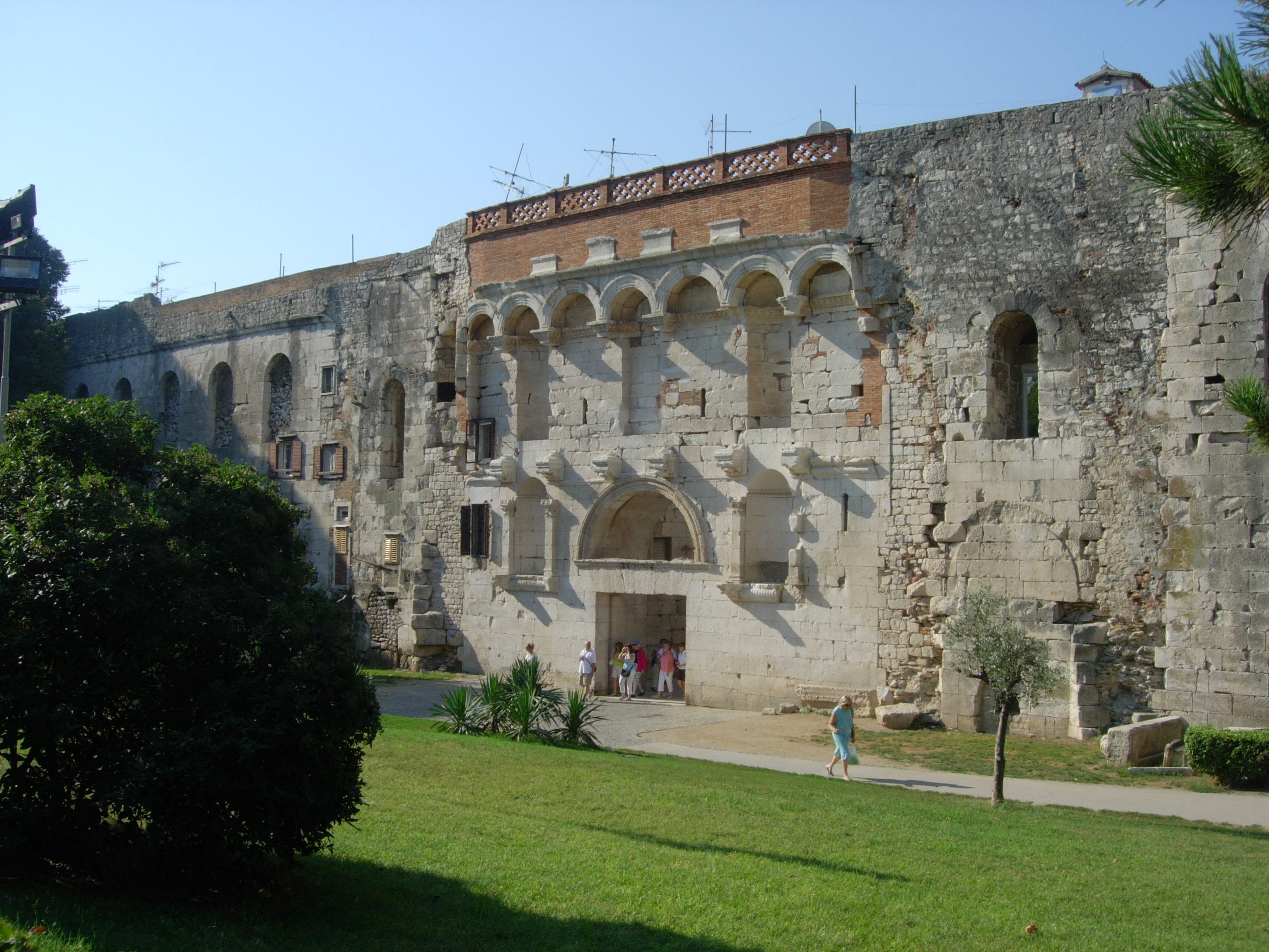 Porta aurea, northern gate of Diocletian's Palace, Split.